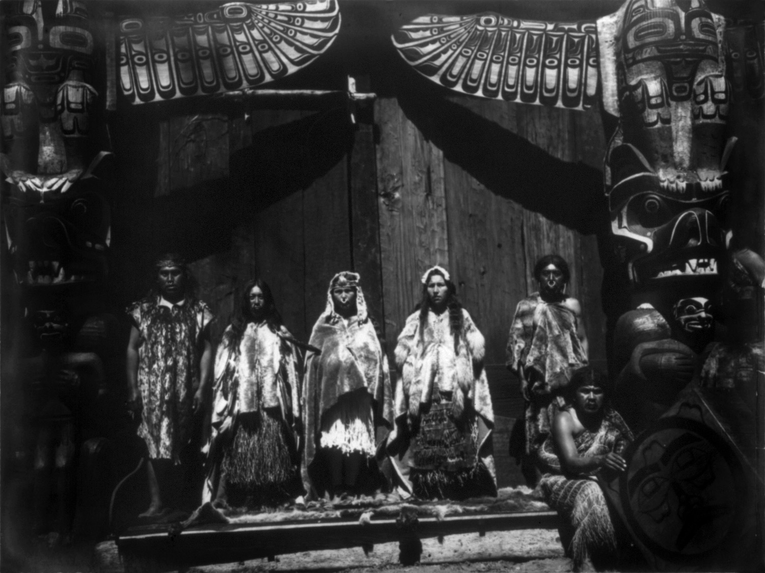 A bridal group. Kwakiutl wedding party, bride in center, hired dancers on each side, her father on far left, all standing on platform, with plank wall behind them and flanked by two totem poles. Groom's father on the right behind man with a box-drum.